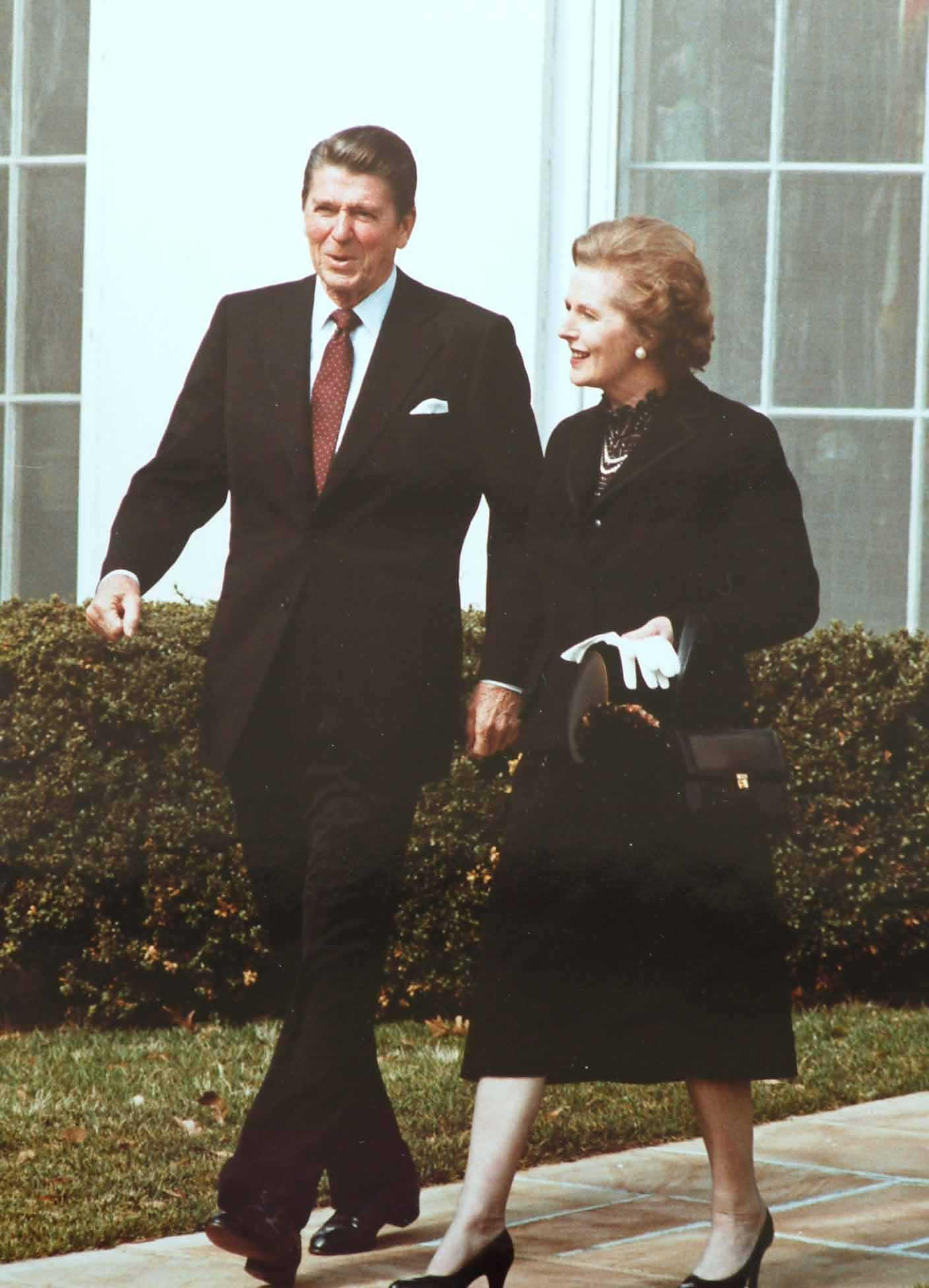 Margaret Thatcher with Ronald Reagan